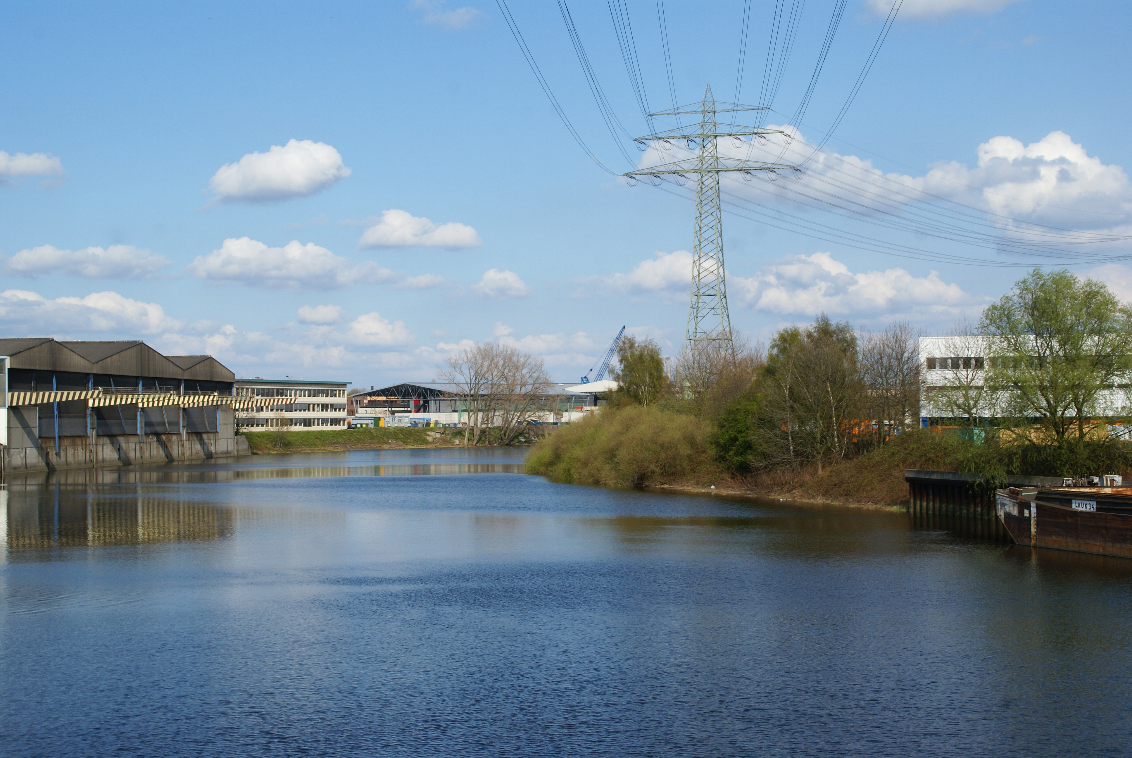 Hamburg (Billbrook), Germany: The Tidekanal